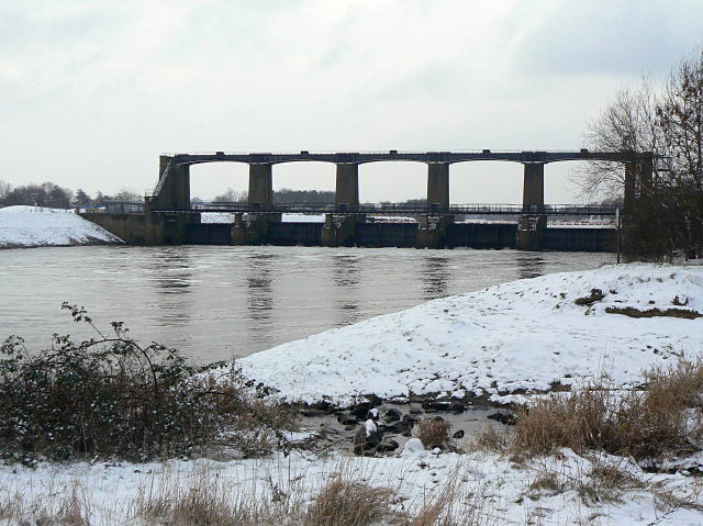 Holme Sluices The only gate weir on the River Trent, it is the most recent major flood alleviation work on the river in Nottinghamshire.